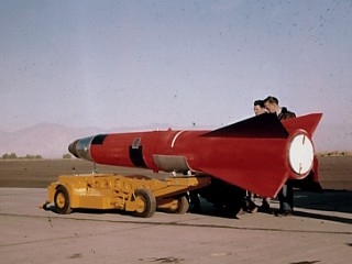 CALEB launch vehicle aboard a loading platform at China Lake.